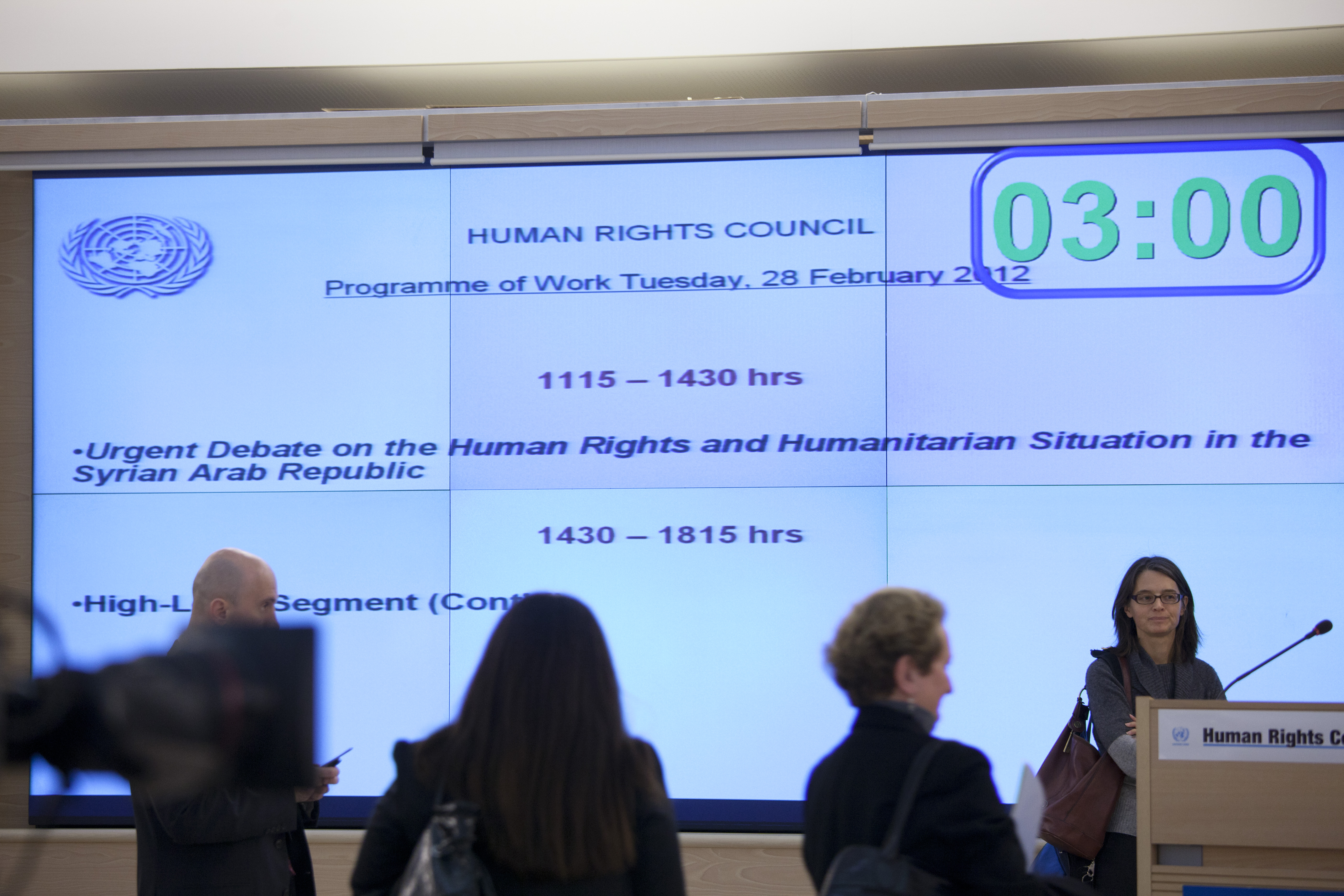 Esther Brimmer, U.S. Assistant Secretary of State for International Organization Affairs, addressed the Human Rights Council Urgent Debate on Syria February 28. The text of Secretary Brimmer’s statement can be found here: U.S. Mission Photo by Eric Bridiers